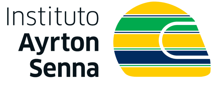 The logo used by Instituto Ayrton Senna.